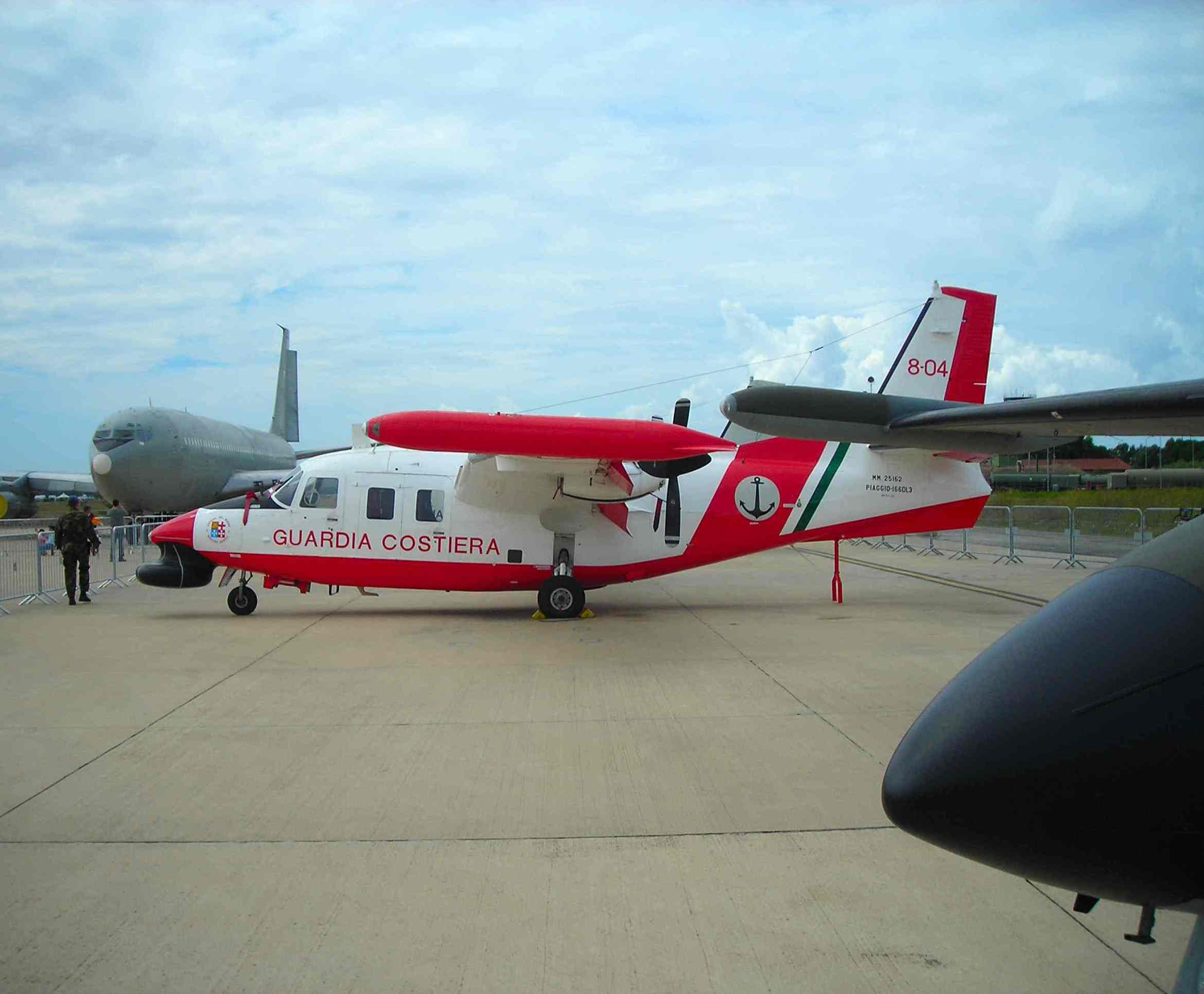 It is a Piaggio P.166 aircraft used by Italian Coast Guard. Picture taken during "Giornata Azzurra" 2006 (Italian Air Force airshow) at Pratica di Mare AFB, Italy.